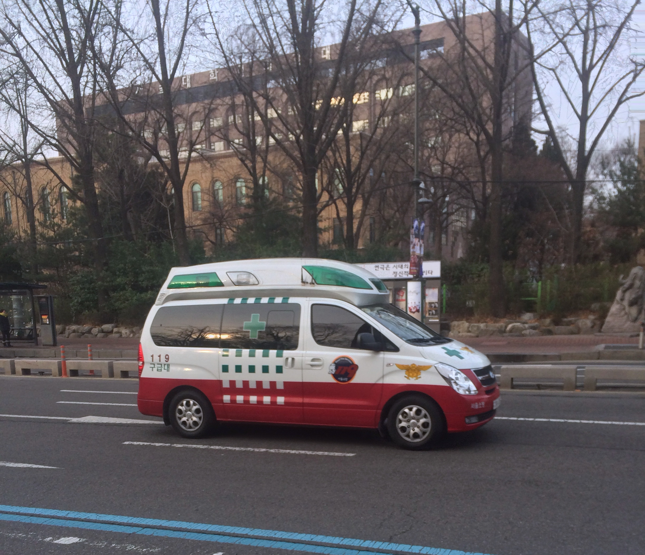 Ambulance running. Background building is the College of Medicine, Seoul National Univ. DaeHakro, Seoul, South Korea.